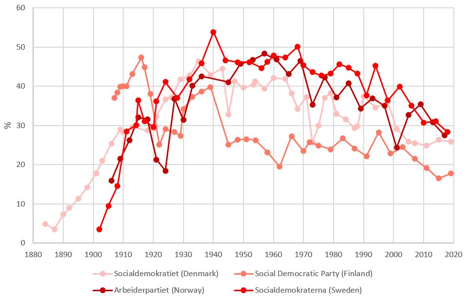 Vote percentage of the main social democratic parties[1] in Denmark, Finland, Sweden and Norway. Source of the percentages: en: Social Democrats (Denmark), Social Democratic Party of Finland, Swedish Social Democratic Party and Labour Party (Norway)